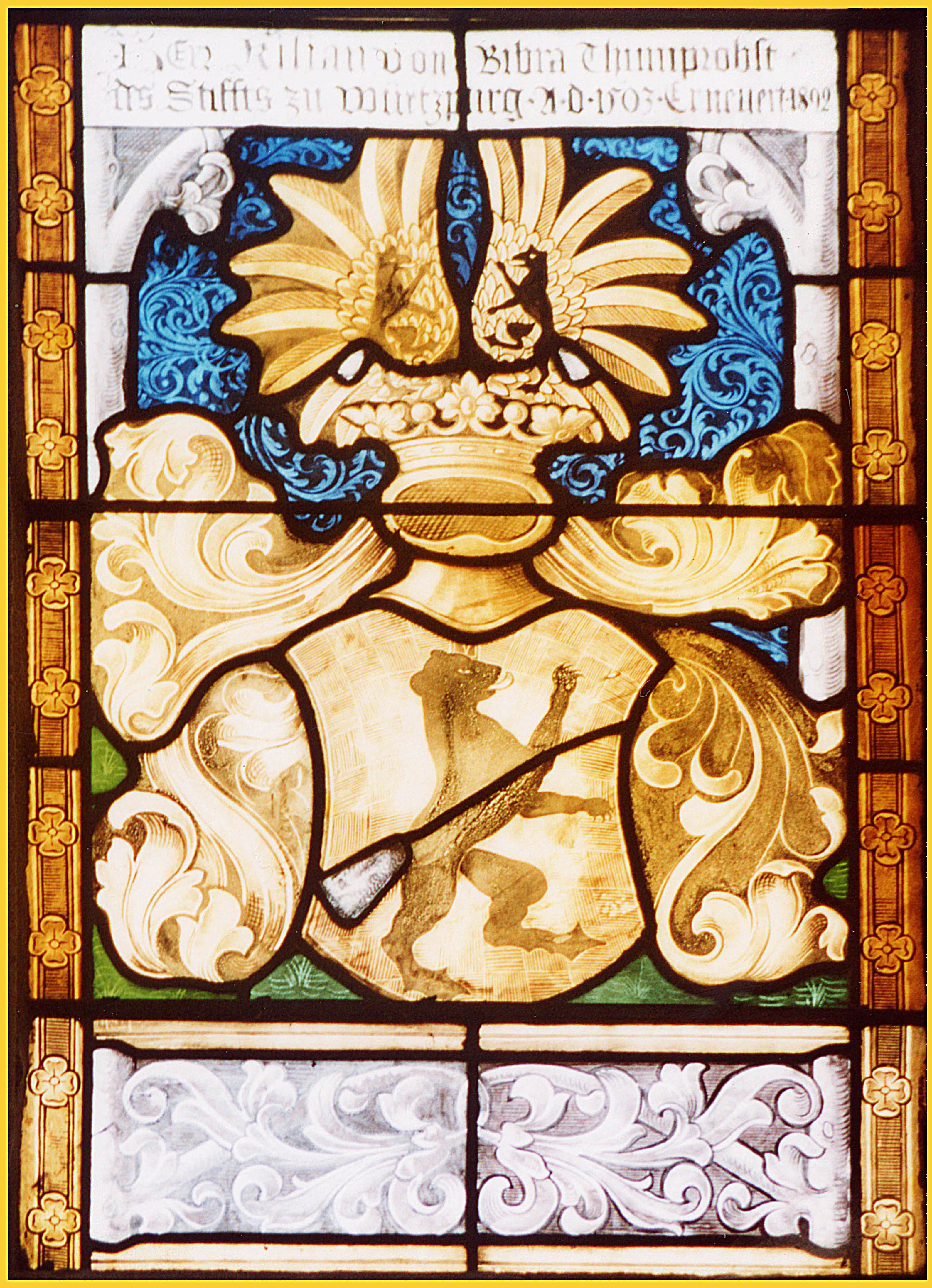 Kilian von Bibra window from Bibra church (St. Leo) about 1492